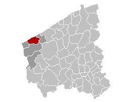 Location map of the Belgian district of Koksijde